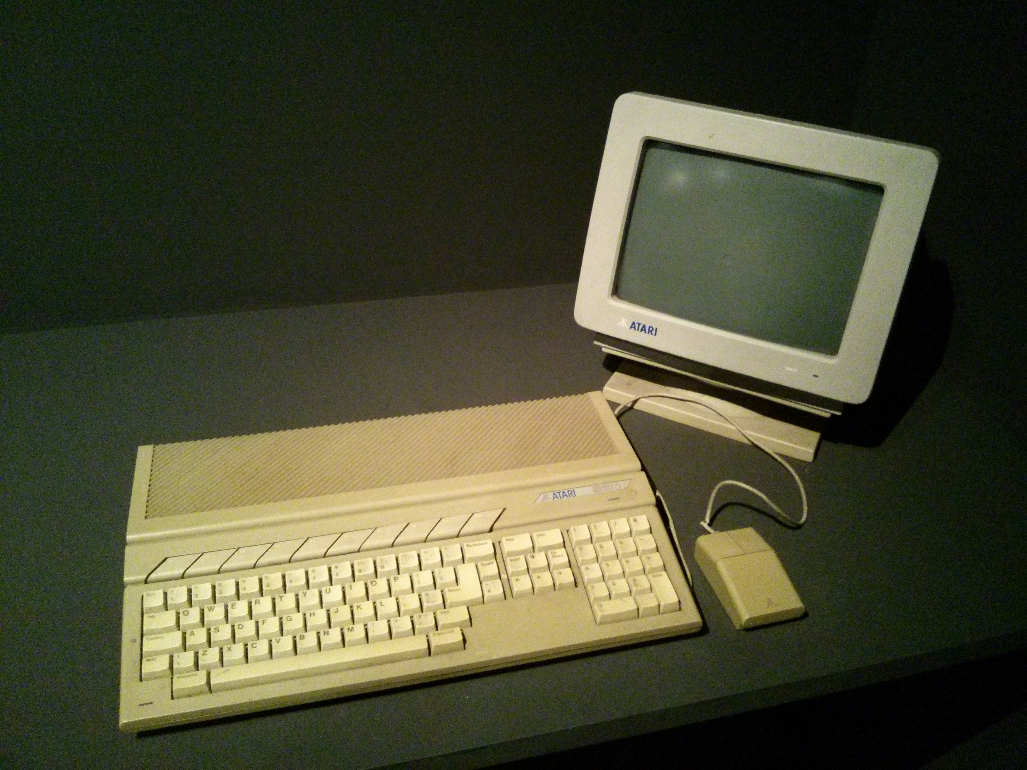 This is the first computer (the brand is Atari) of Theo Jansen. He used this computer for generate the mathematics algorithms for his scultures.